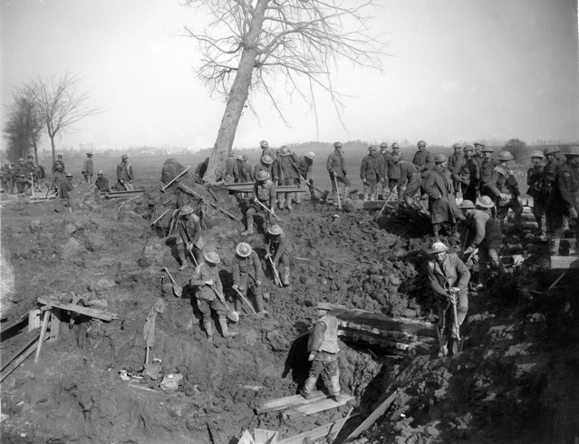 Australians from the 2nd Pioneer Battalion clearing a road near Bapaume, March 1917